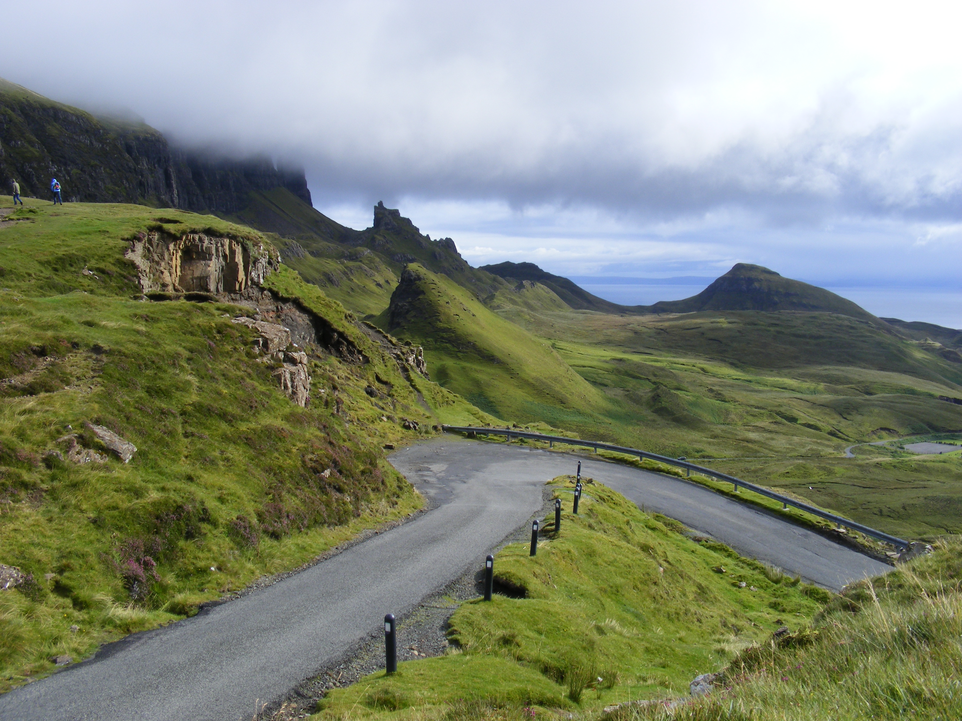 a view of the Quiraing on the Isle of Skye, Scotland.